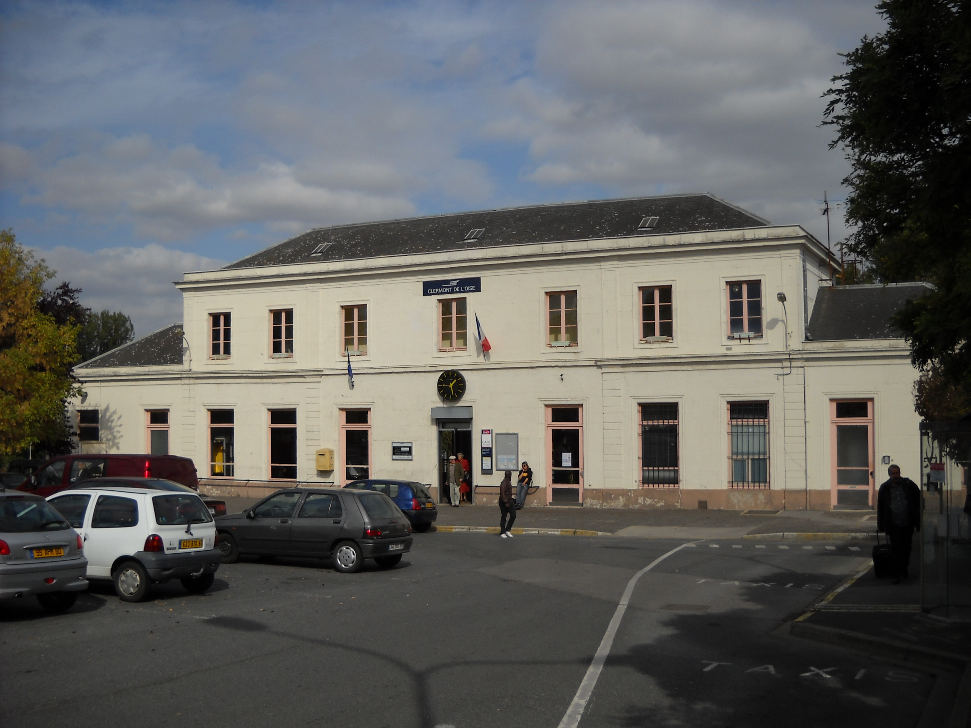 The train station of Clermont, Oise, France.